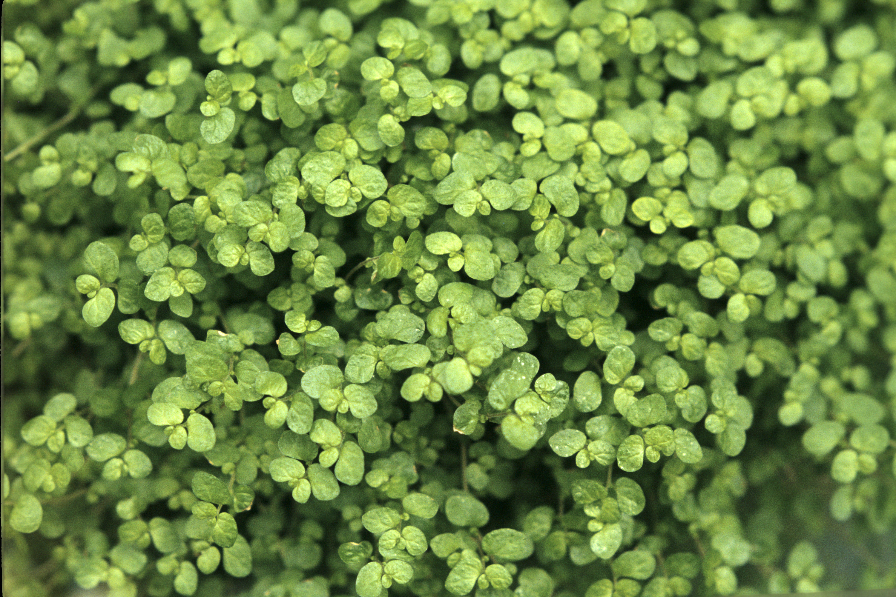 Soleirolia soleirolii also known as Helxine soleirolii